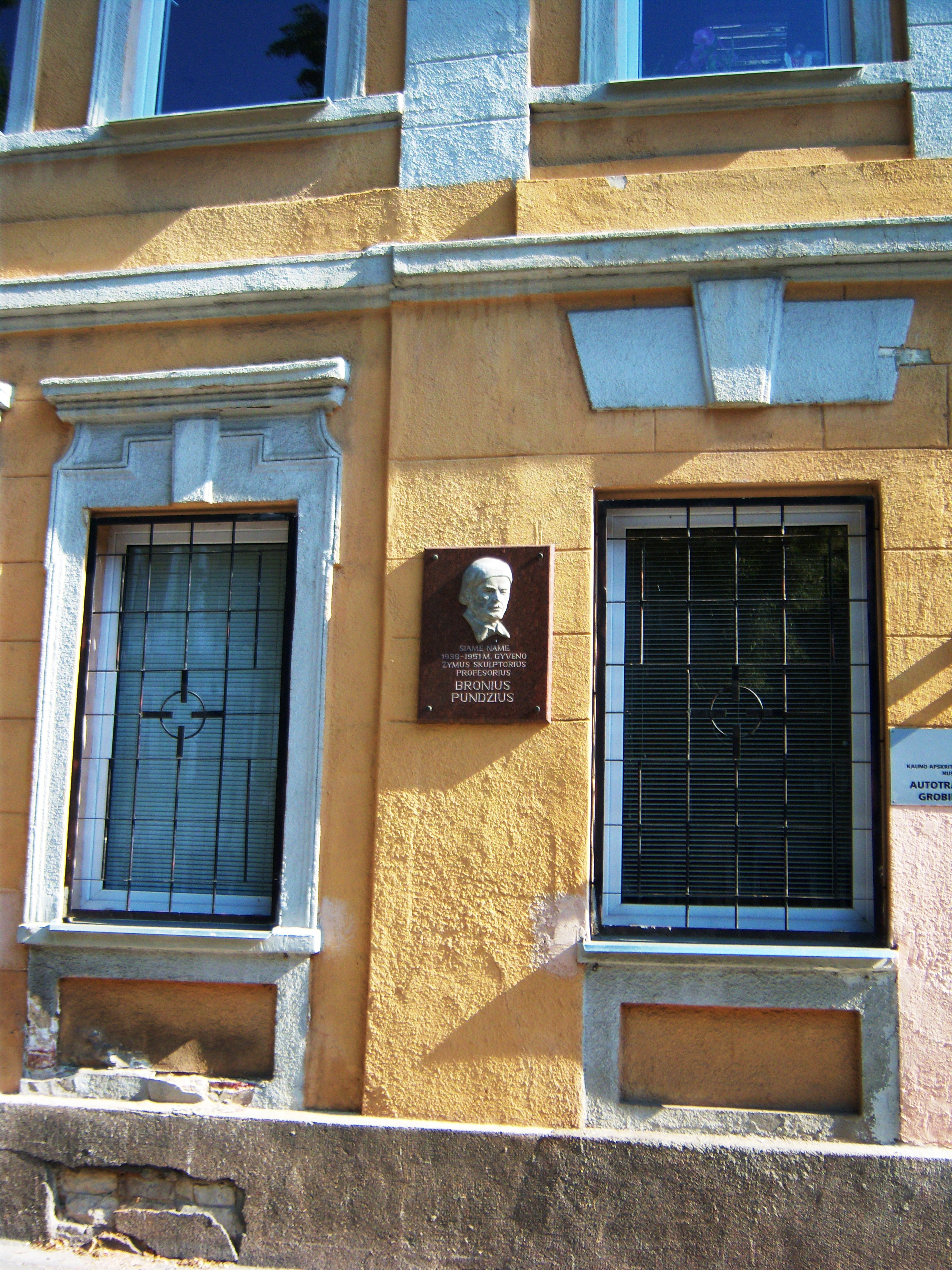 Memorial plaque to Bronius Pundzius, Kaunas, Lithuania